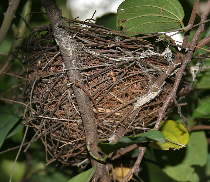 Red-vented Bulbul Pycnonotus cafer at Ananthagiri Hills, in Rangareddy district of Andhra Pradesh, India.